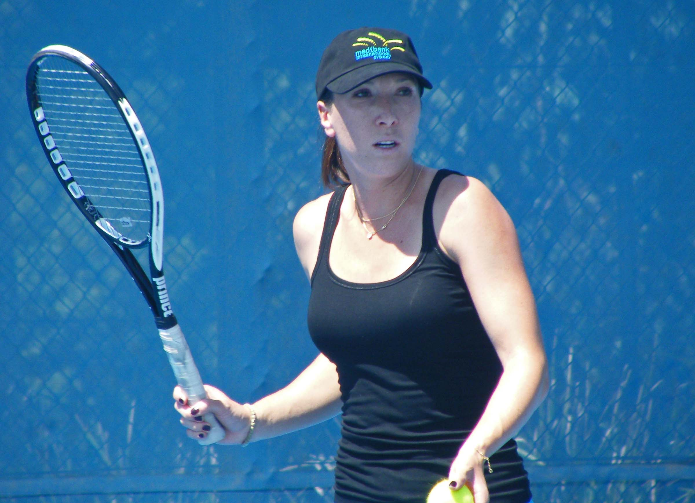 Jelena Jankovic at the NSW Medibank Open Tennis 2010.